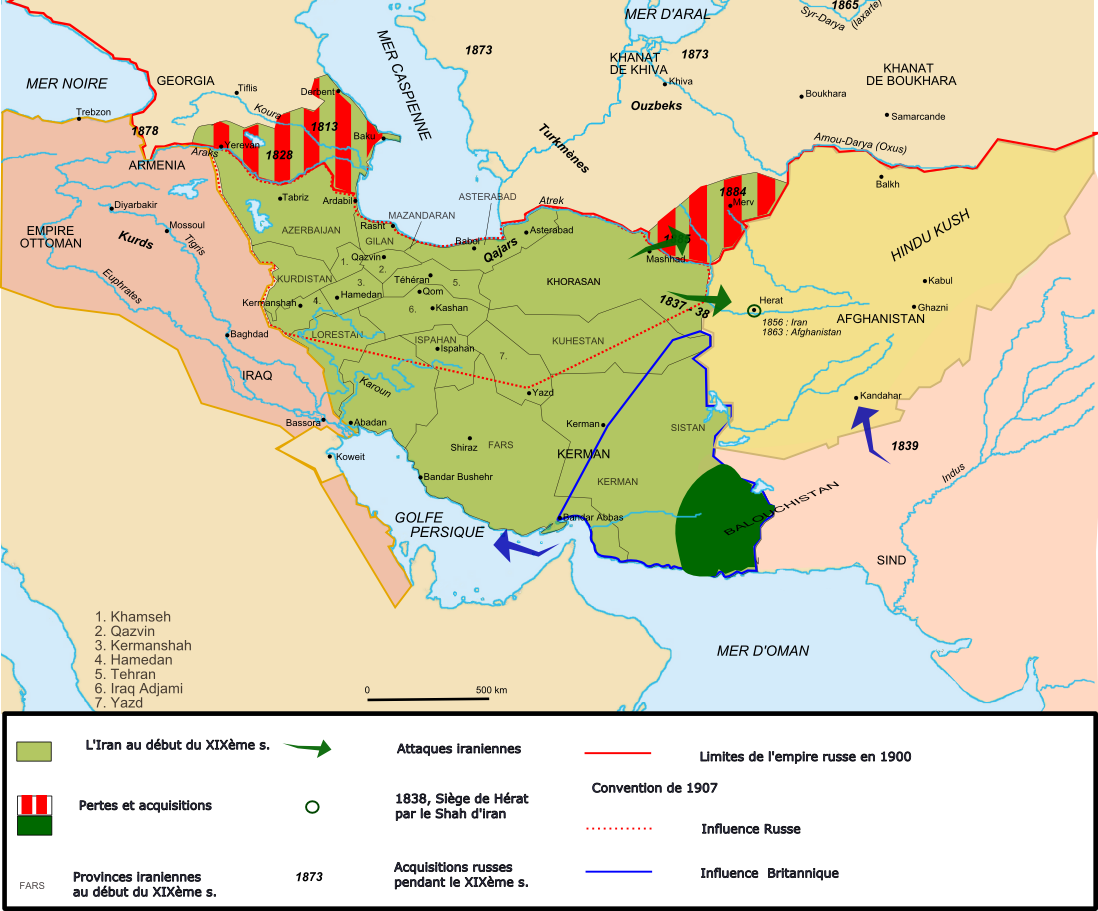 Date24 September 2006 (original upload date)SourceOwn workAuthorFabienkhan Licensing[edit]